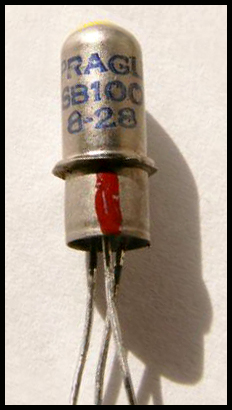 This is a Sprague high-frequency surface-barrier (SB100) transistor that was licensed by Philco in late 1955, to manufacture and sell. This transistor is from my personal collection.